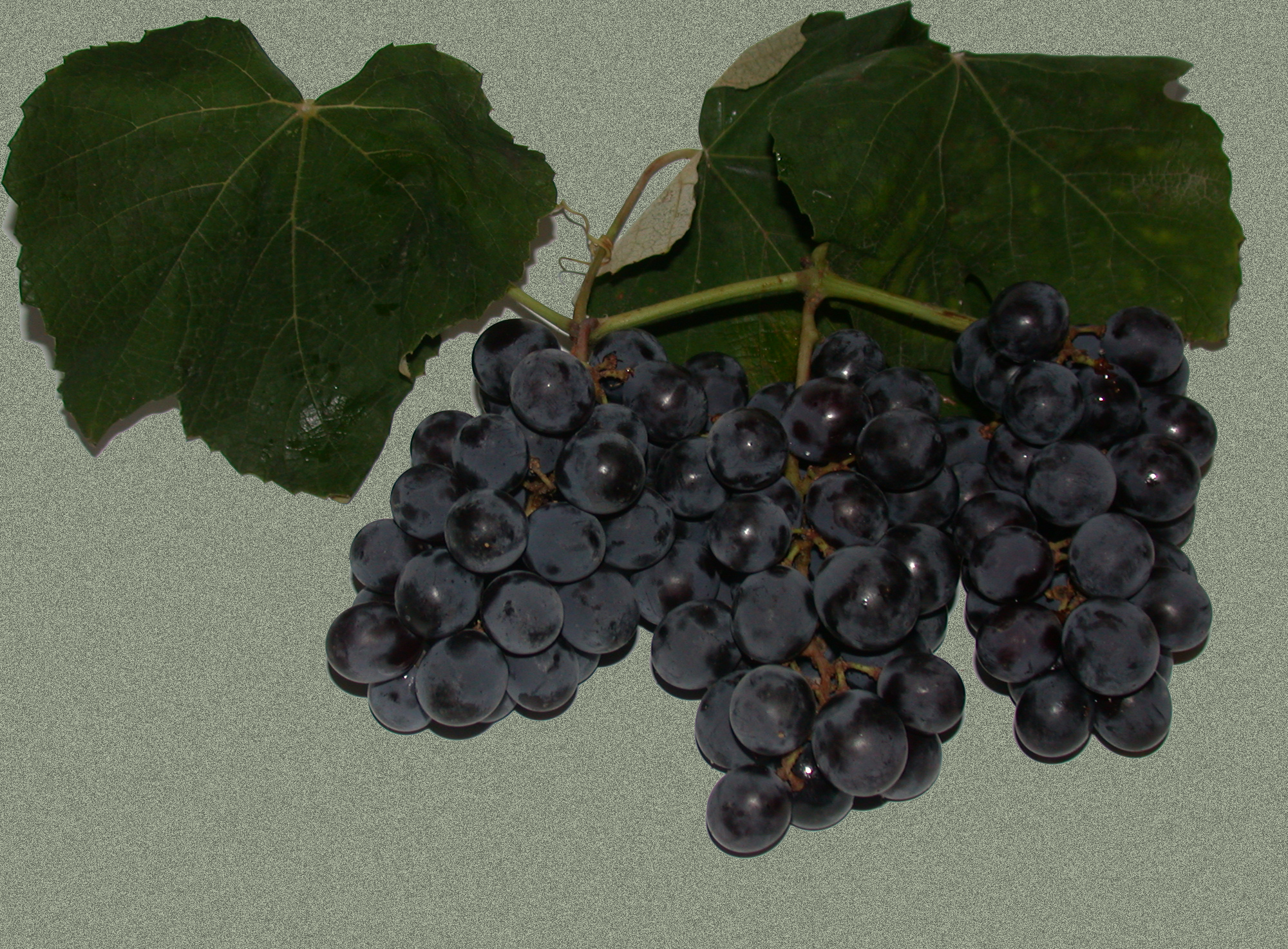 Some grape bunches. Foto personale by MM in it.wiki